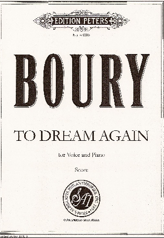 Sheet music cover of 'To Dream Again' op. 56 (S, pf), 2002 Song cycle by Robert Boury.